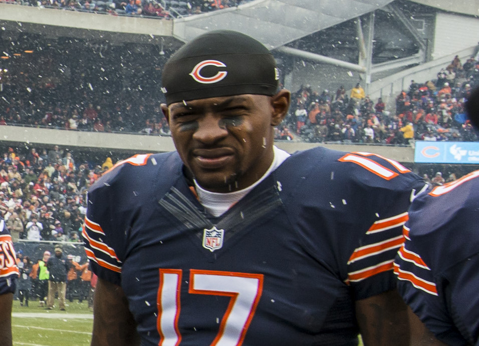 Chicago Bears wide receiver, Alshon Jeffrey, in a game against the Minnesota Vikings on November 16, 2014.